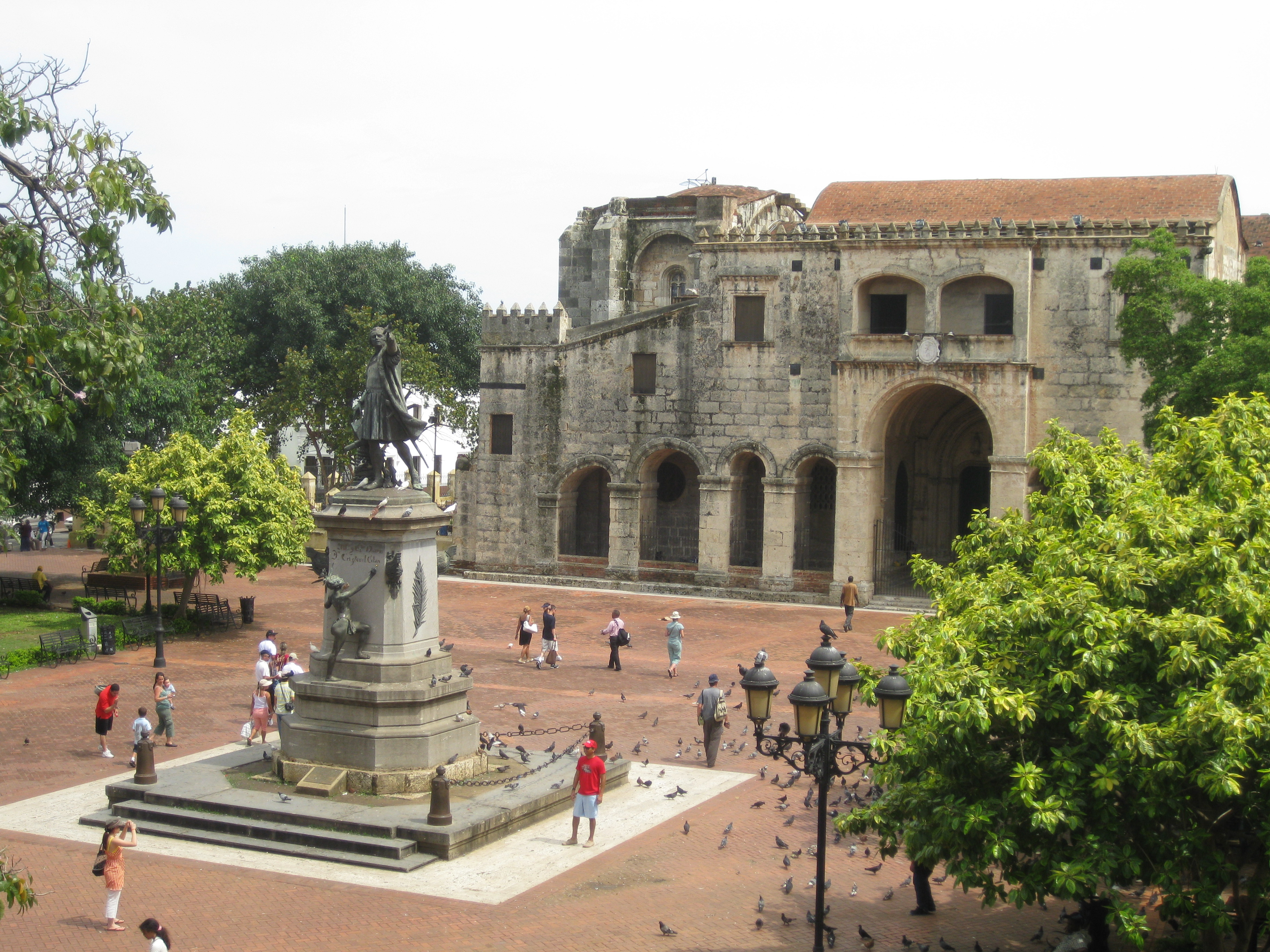 Columbus Park Dominican Republic